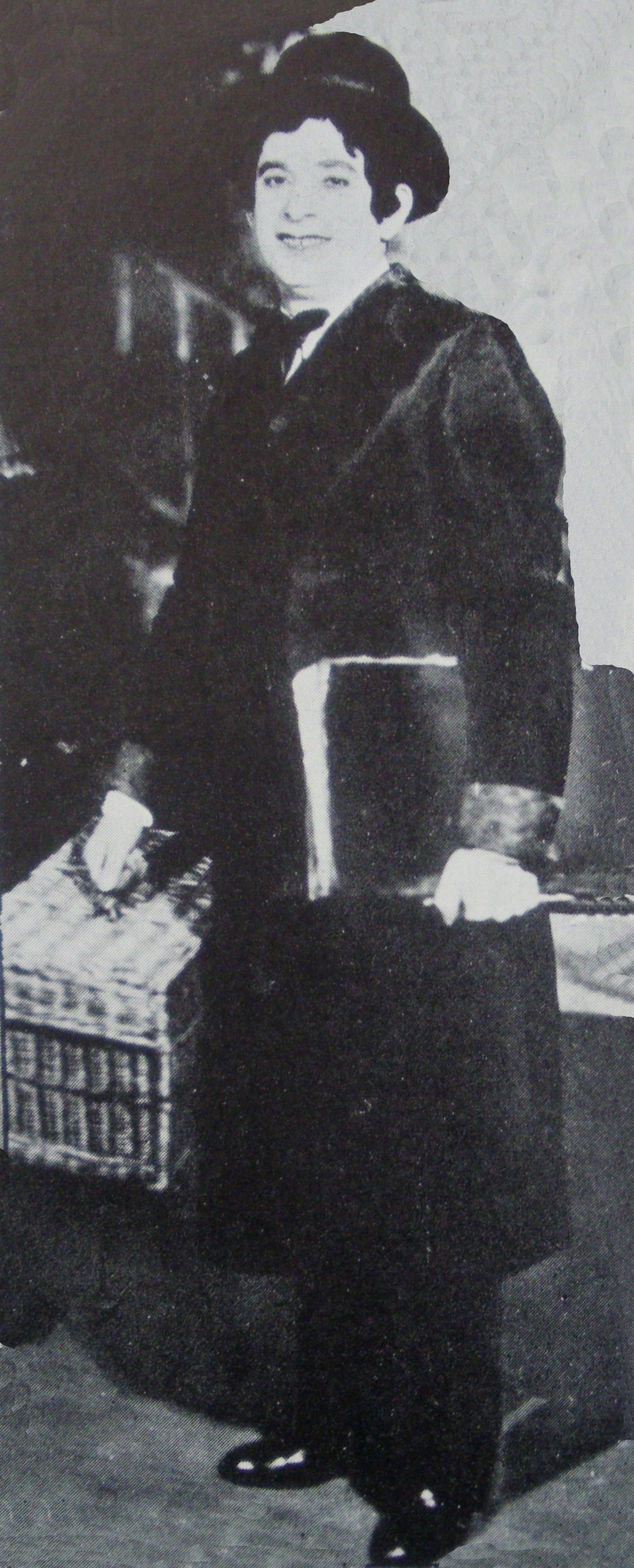 Aaron Lebedeff, Yiddish singer and actor, in Der litvisher yankee